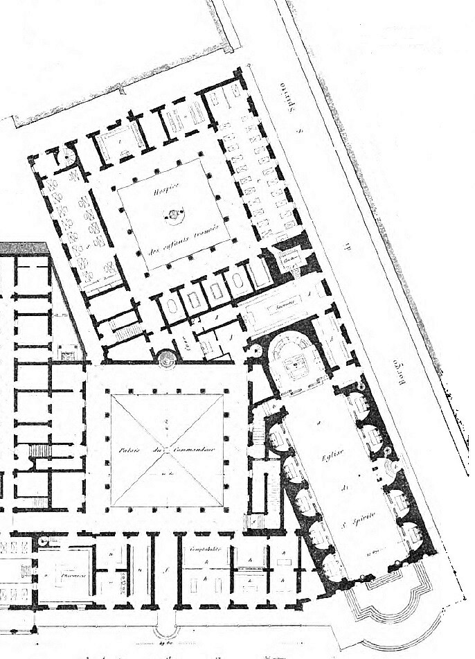 plan of Church and hospital of S. Spirito in Sassia, Rome